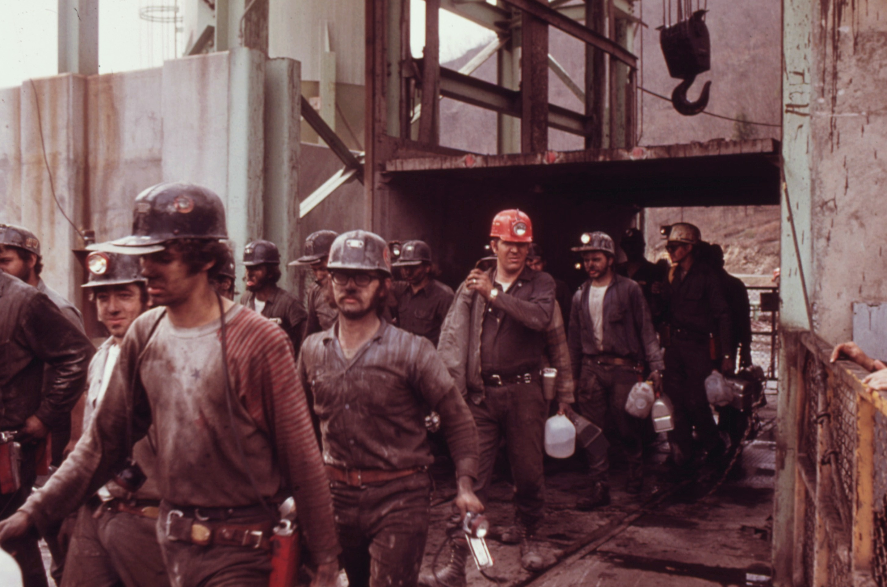 FIRST SHIFT OF MINERS AT THE VIRGINIA-POCAHONTAS COAL COMPANY MINE #4 NEAR RICHLANDS, VIRGINIA, LEAVING THE ELEVATOR. THEY WILL BE REPLACED BY THE SECOND WORK SHIFT THAT WILL WORK FROM 4 P.M TO MIDNIGHT. A MIDNIGHT TO MORNING OR "HOOT-OWL" SHIFT WILL CONDUCT CLEAN-UP OPERATIONS. MANY OF THE MEN CARRY THEIR OWN WATER JUGS FROM HOME, PREFERRING TO DO THAT TO DRINKING THE COMPANY PROVIDED WATER. THOSE WHO SMOKE ABOVE GROUND CHEW TOBACCO WHILE AT WORK